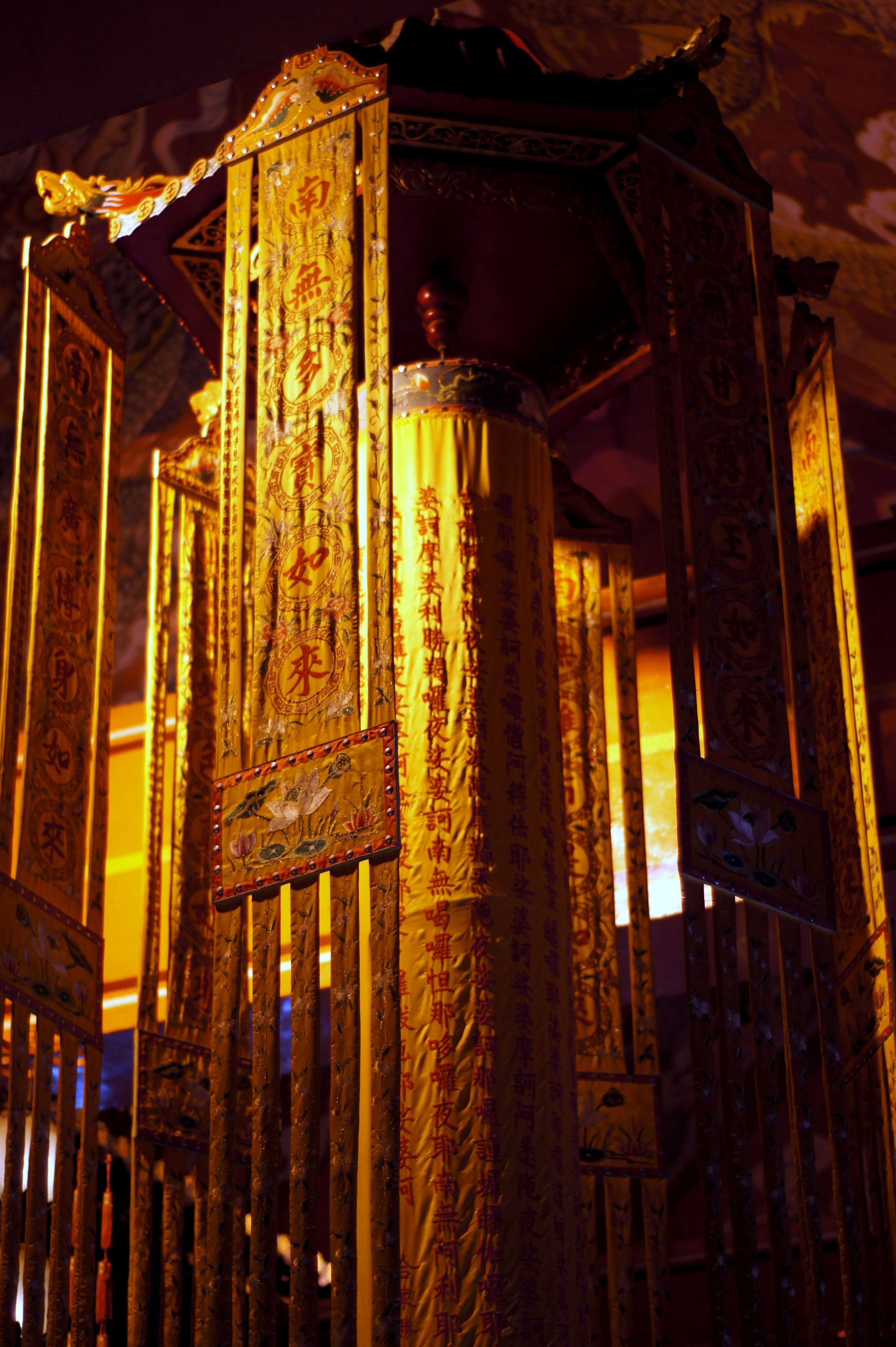 A hanging-banner inside Po Lin Monastery, Lantau Island, Hong Kong.